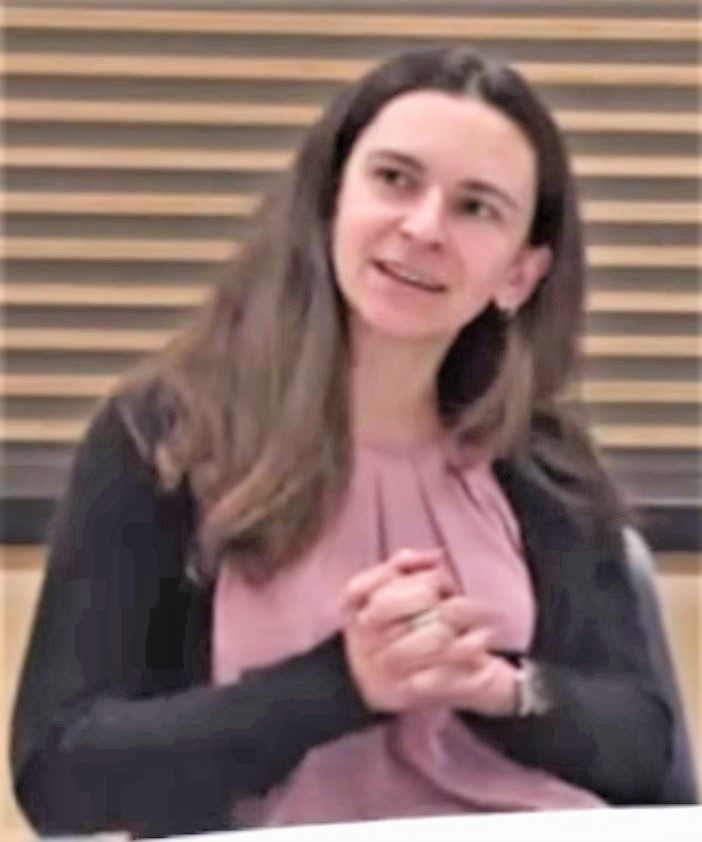 Joichi Ito has a conversation with Katy Croff Bell about oceans, deep sea exploration and Nautilus Live.